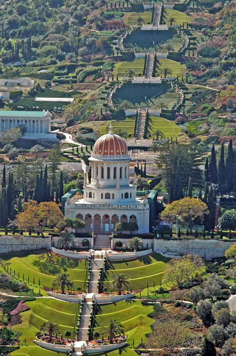 Shrine of the Báb and its associated terraces at the Bahá'í World Centre, Haifa